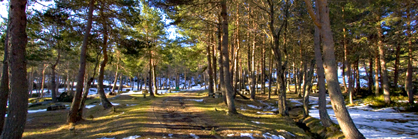 Manzaneda ski resort in spring